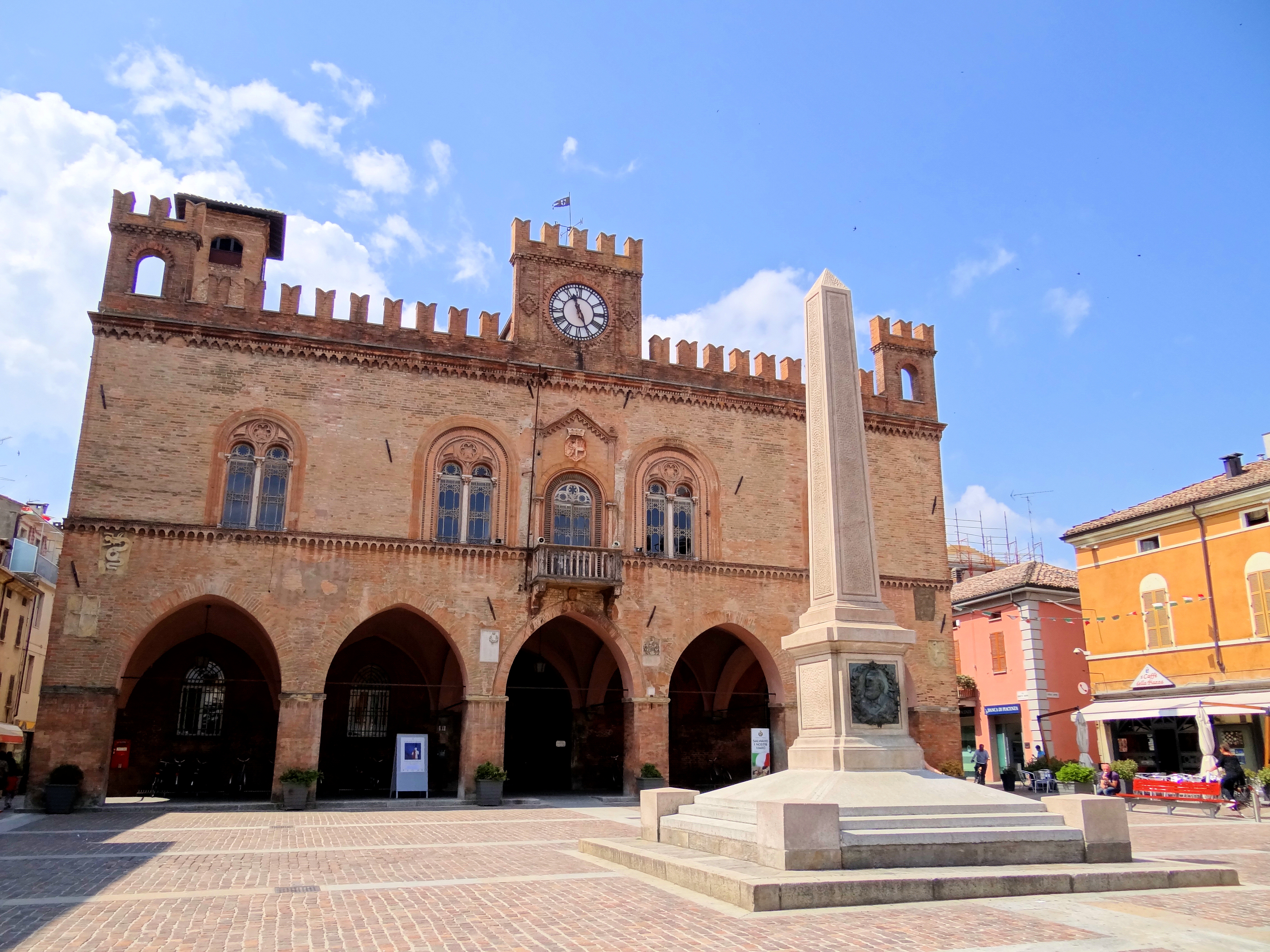 The Town Hall of Fidenza, with the Garibaldi Obelisk, on the Piazza Garibaldi. Via Francigena passes across this town square.